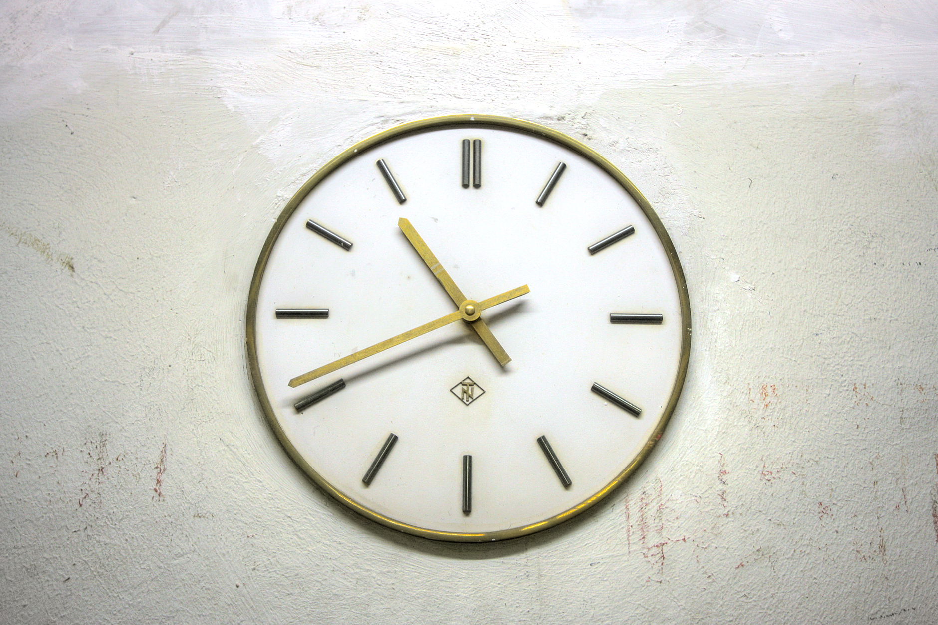 Cologne Opera house and theatre („Bühnen Köln“), backstage area